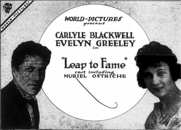 Advertisement for the American drama film Leap to Fame (1918) with Carlyle Blackwell and Evelyn Greeley, on page 42 of the May 10, 1918 Variety.